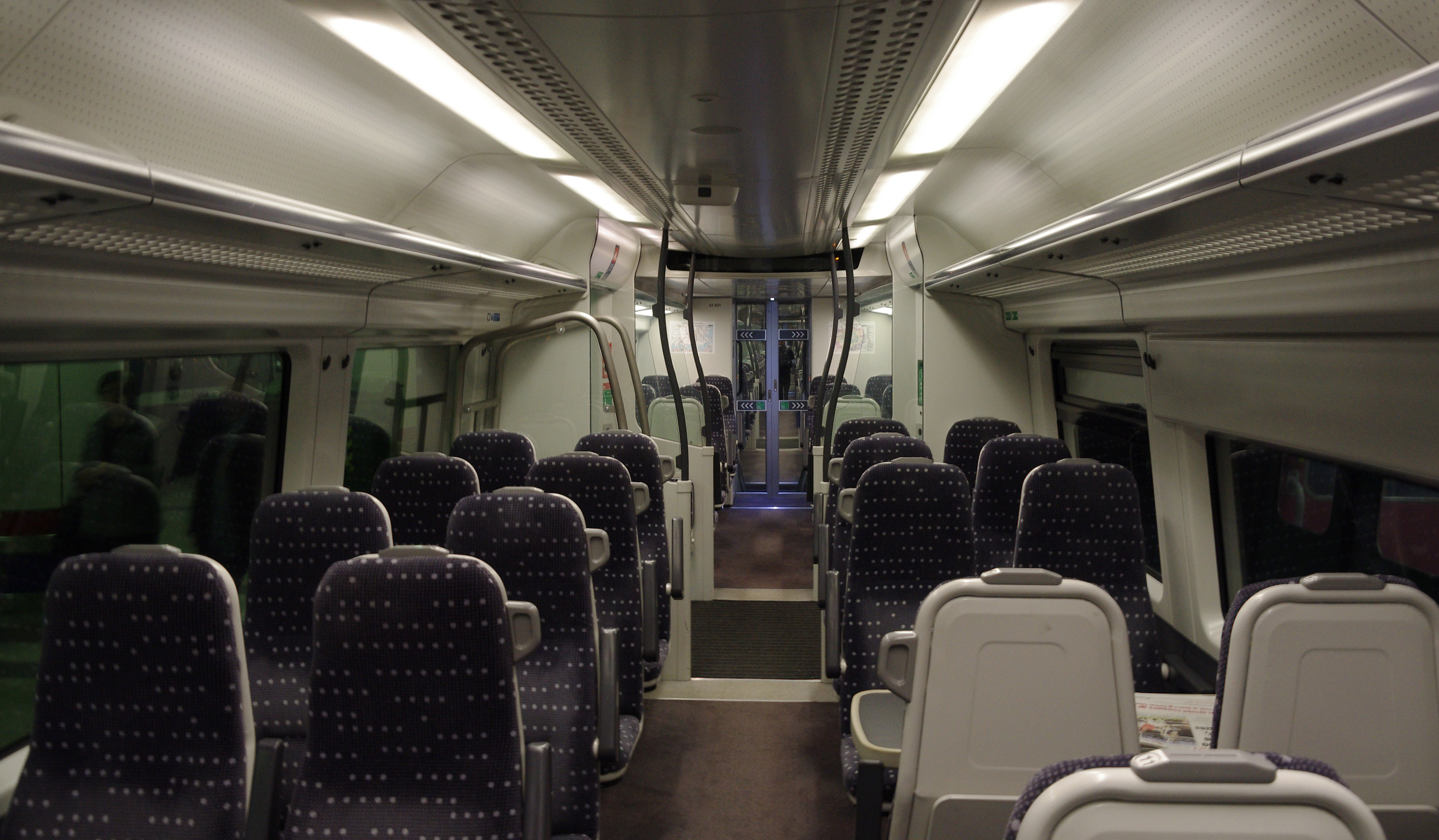 Interior of Greater Anglia "Electrostar" EMU 379021 at London Liverpool Street.